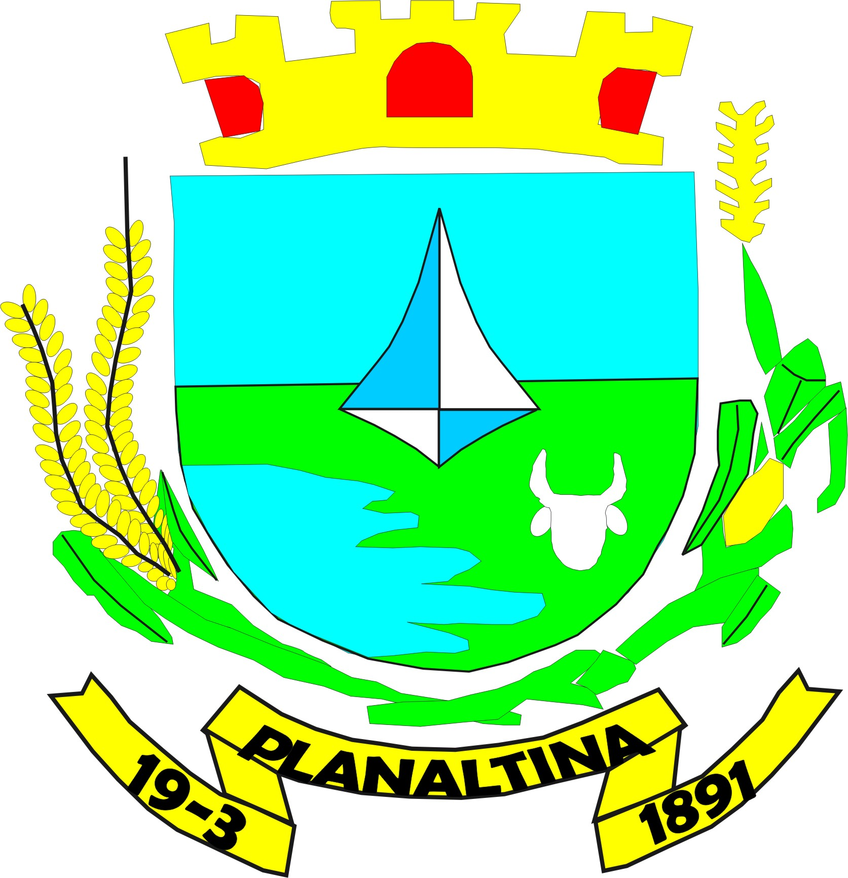 Coat of arms of the municipality of Planaltina, in the Goiás, Brazil.